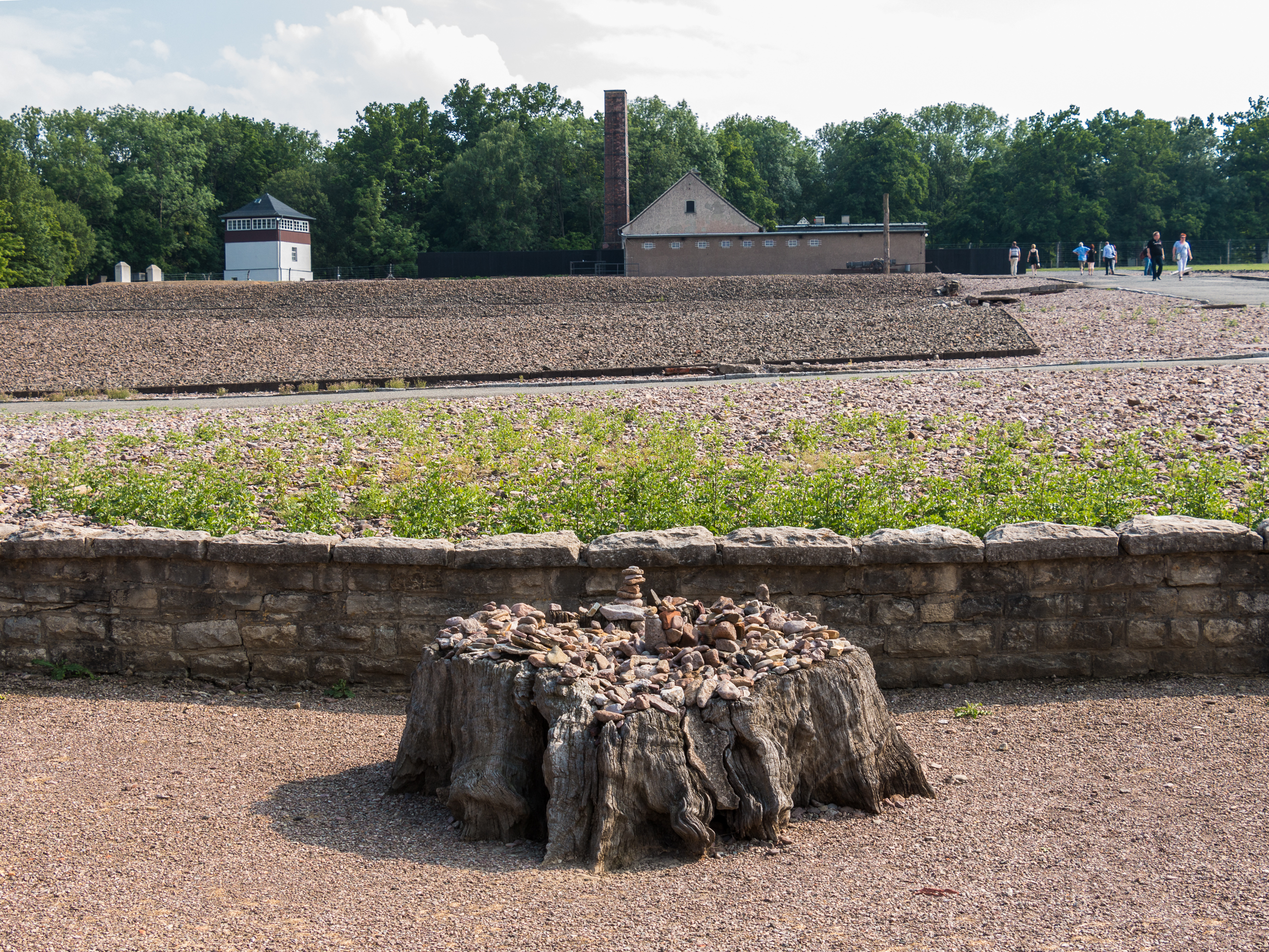 The so called "Goethe Oak" in the Buchenwlad concentration camp